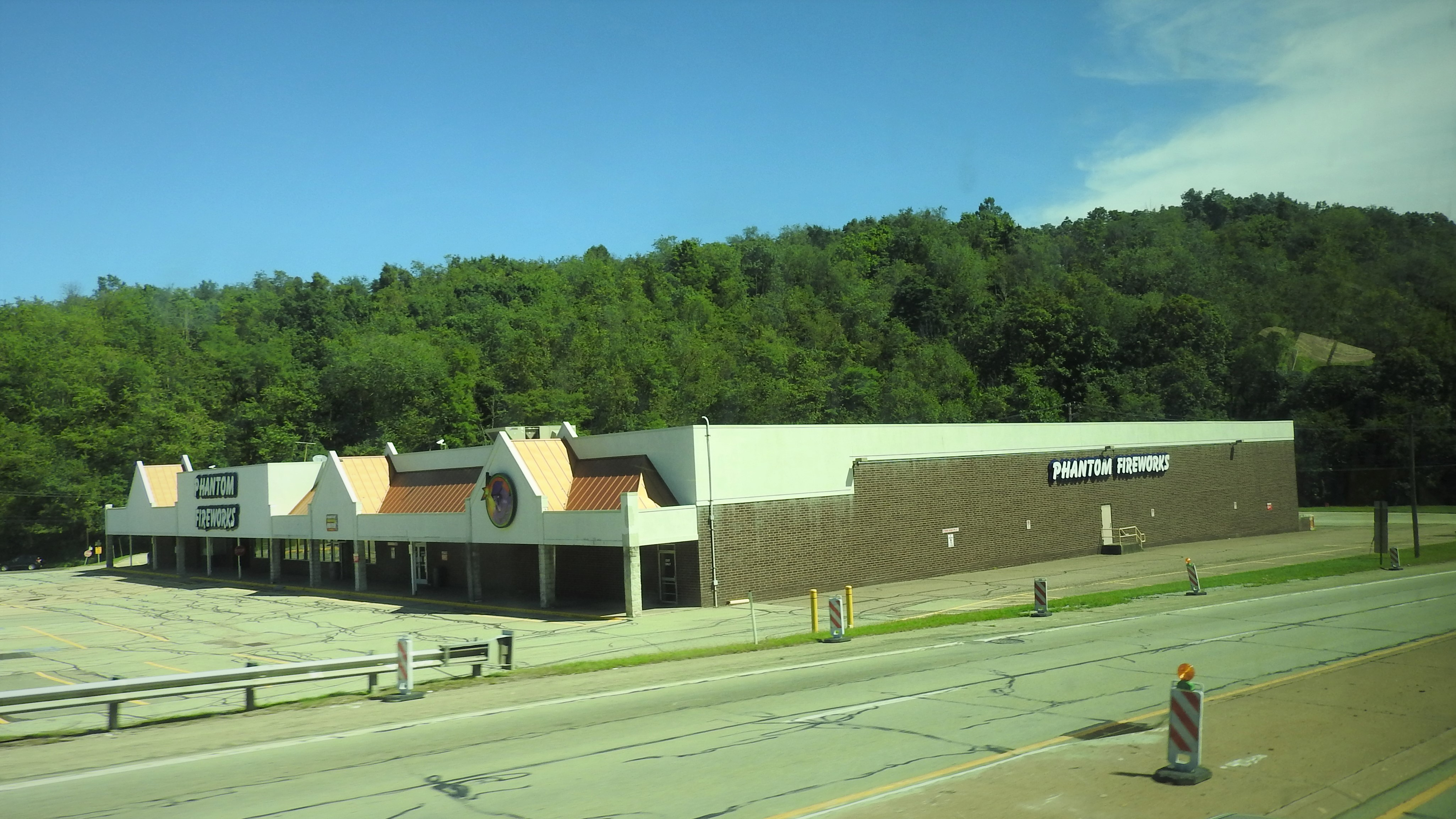 Looking northeast from bus on a sunny midday